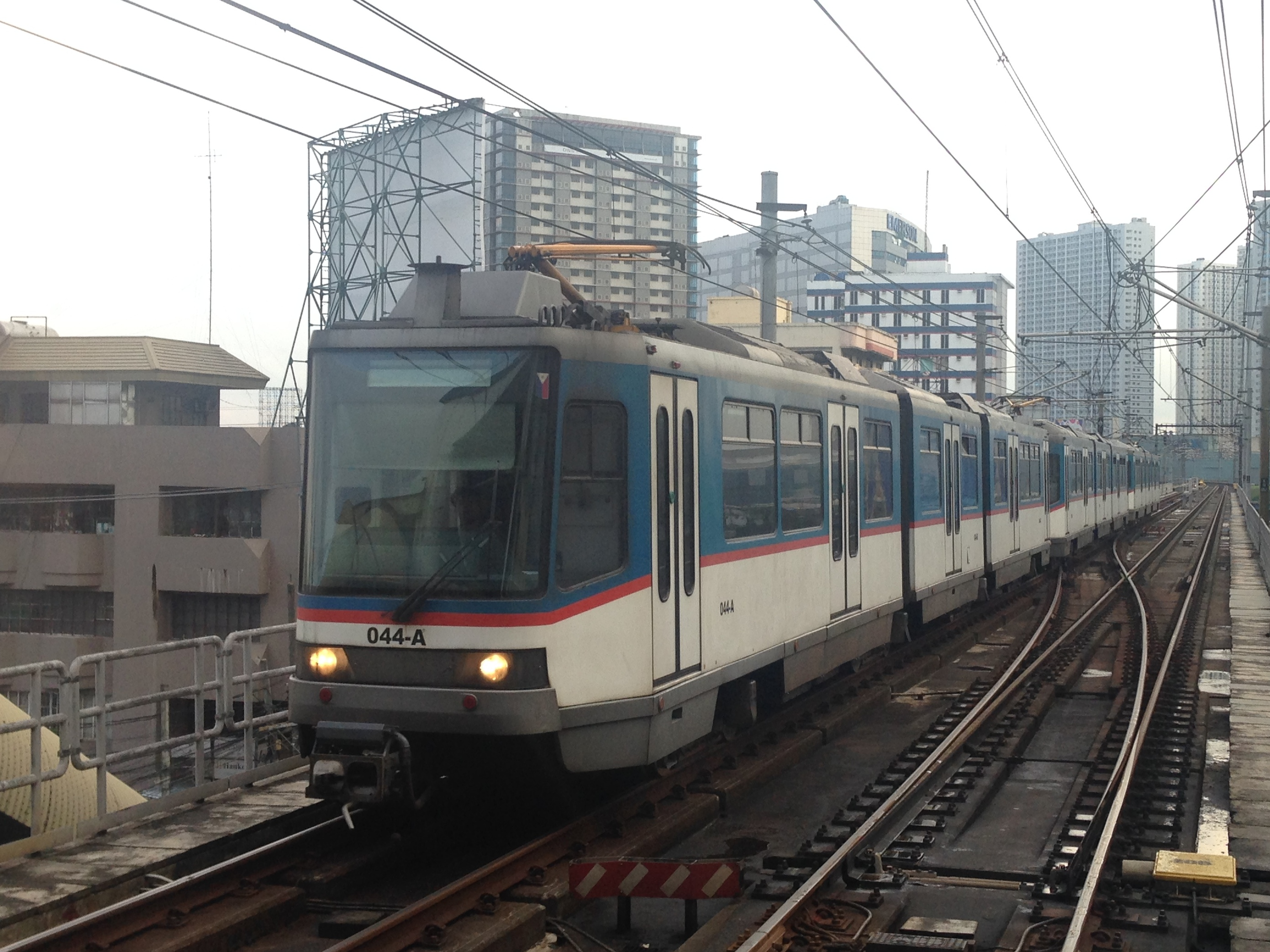 Taken at Line 3 North Avenue Station.